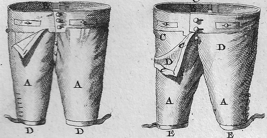 Knee breeches of the later 18th century. Left: Buttoned centre front placket (usual style until c. 1750/50), richt: fall front (usual from about 1760)